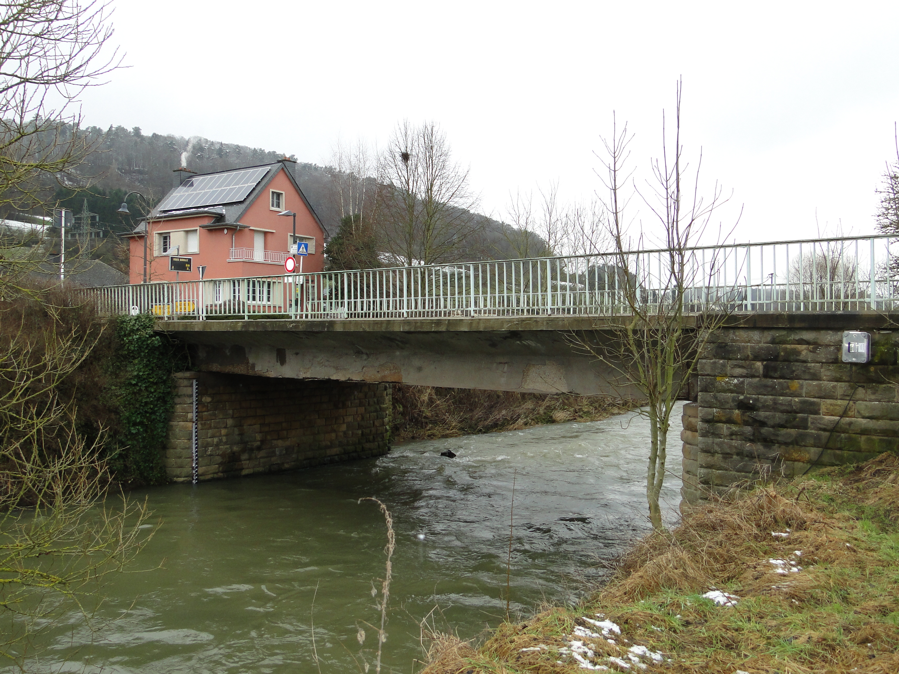 Gosseldange: bridge over Alzette river; looked downstream.